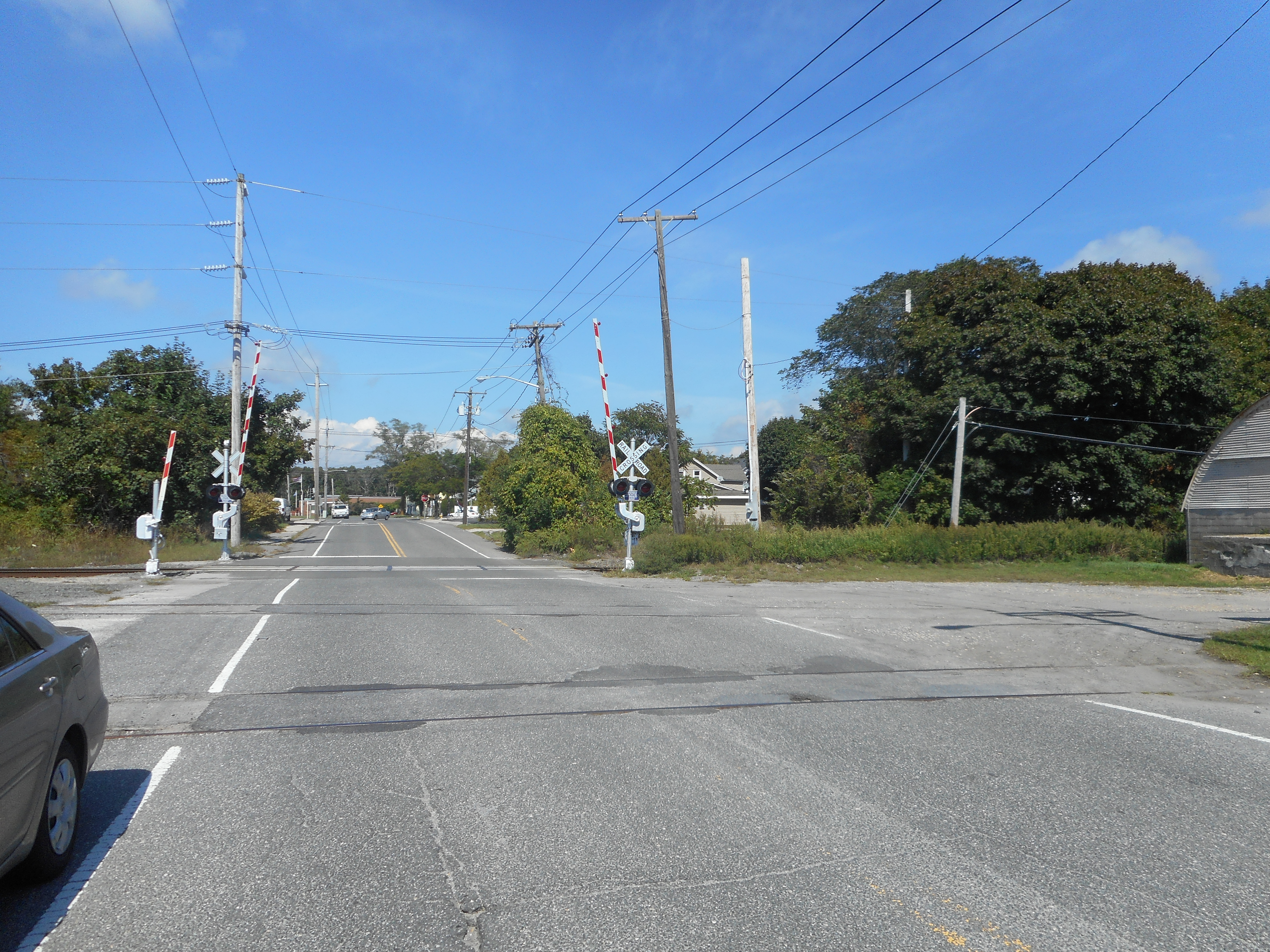 The vicinity of the site of the former Eastport LIRR Station on East Moriches Boulevard in Eastport, New York. Note also, the two poorly maintained, unguarded side tracks between the Moriches Boulevard Yard, and the Eastport Feeds Warehouse, a store for agricultural food and supplies.